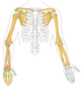 Low resolution (for navigation box)